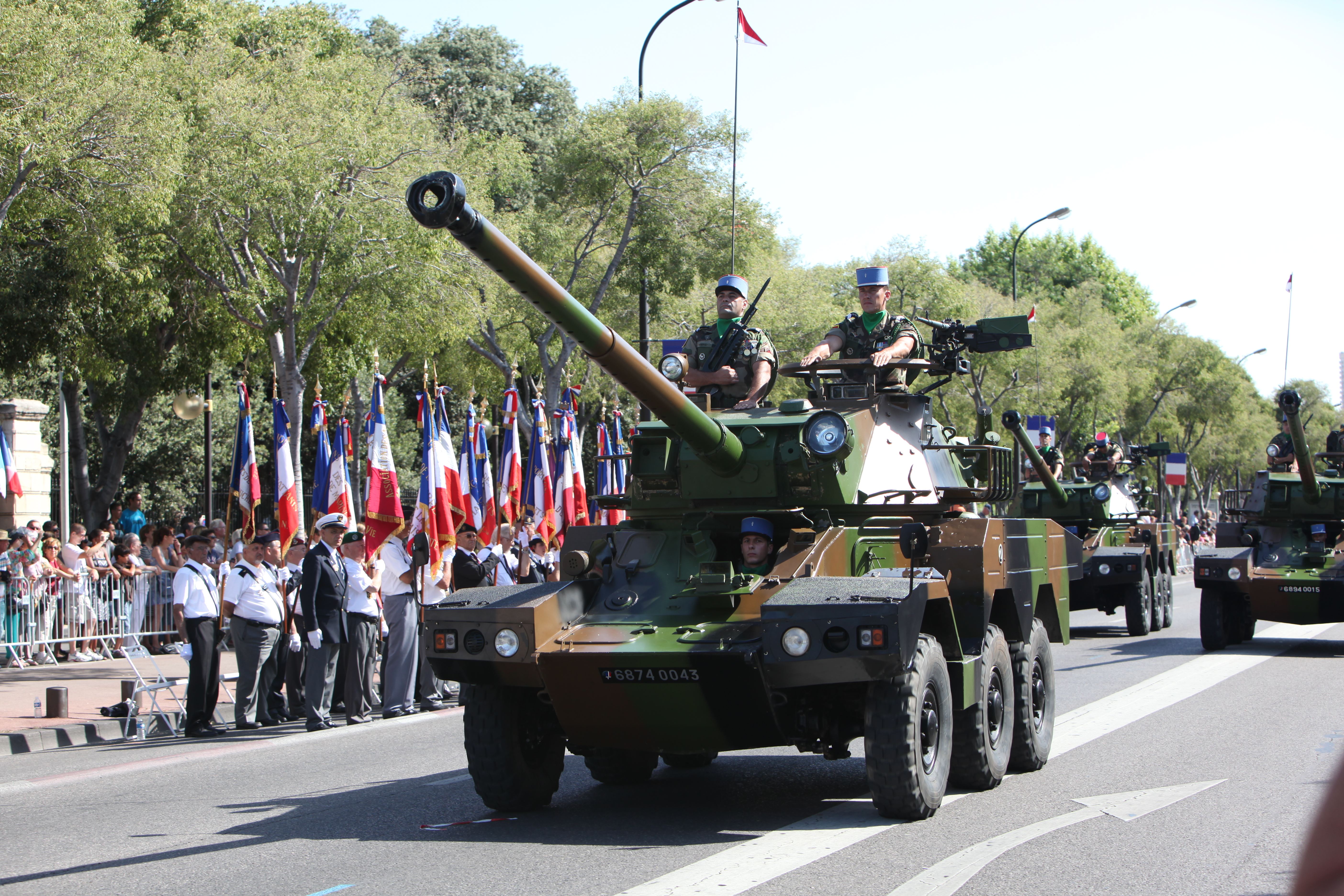 ERC 90 Sagaie of the 1er régiment de chasseurs d'Afrique during the military parade of 14 July 2012 in Marseille. The making of this document was supported by Wikimédia France. (Submit your project!)